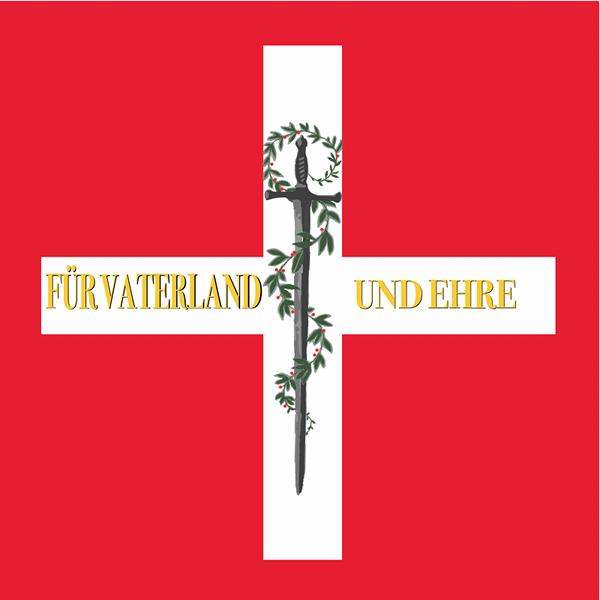 Redrawing of the first Swiss battalion flag of 1815, after the design of General Niklaus Franz von Bachmann. Four of these flags were made in 1815, and officially given to the four line battalions formed from soldiers returning from French service on 12 October 1815. One of these four original flags is on exhibit in the National Museum in Zurich. The flag has a sword with laurel in the vertical bar of the cross, and the inscription "Für Vaterland und Ehre" (pro patria et honore) in the horizontal. The inscription is in golden letters. On the reverse side, the flag is inscribed with "Schweizerische Eidgenossenschaft". See also: Edi Huber, Ein Glarner gab den Anstoss für die Schweizerfahne (2009) This is a manually redrawn version of File:Swiss flag Bachmann 1815.svg, which is a vectorization of a photograph (unfortunately of very poor quality) of the flag exhibited in the National Museum.